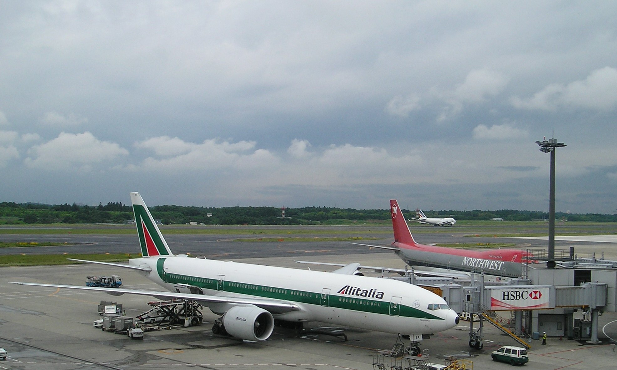 Pic Taken @ Tokyo Narita Intl. Airport